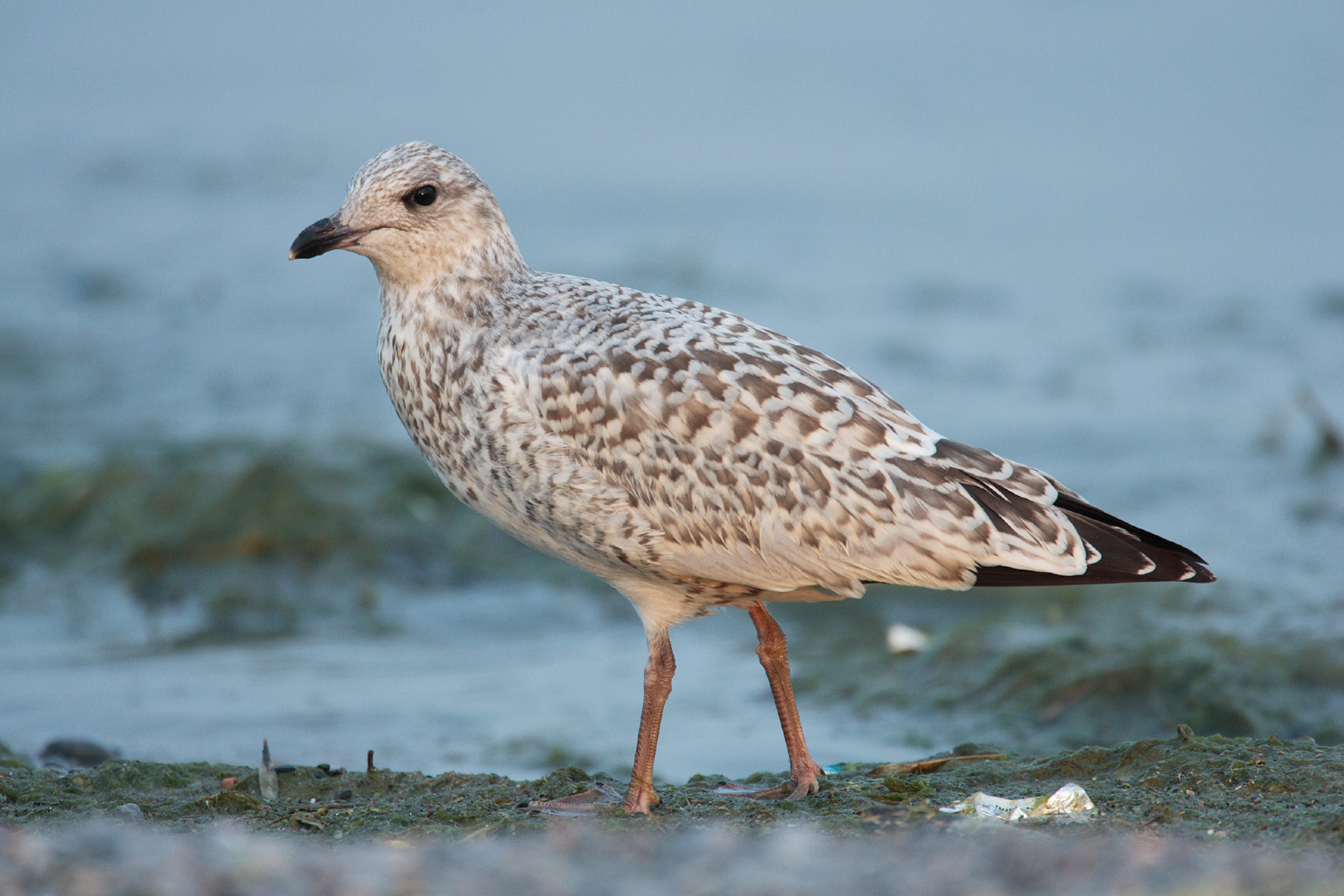 Description: Young Ring-billed Gull (Larus delawarensis), Whitby, Ontario, 2005; de: Ringschnabelmöwe Photograph: Mdf first upload in en wikipedia on 23:47, 29 June 2005 by Mdf Licence